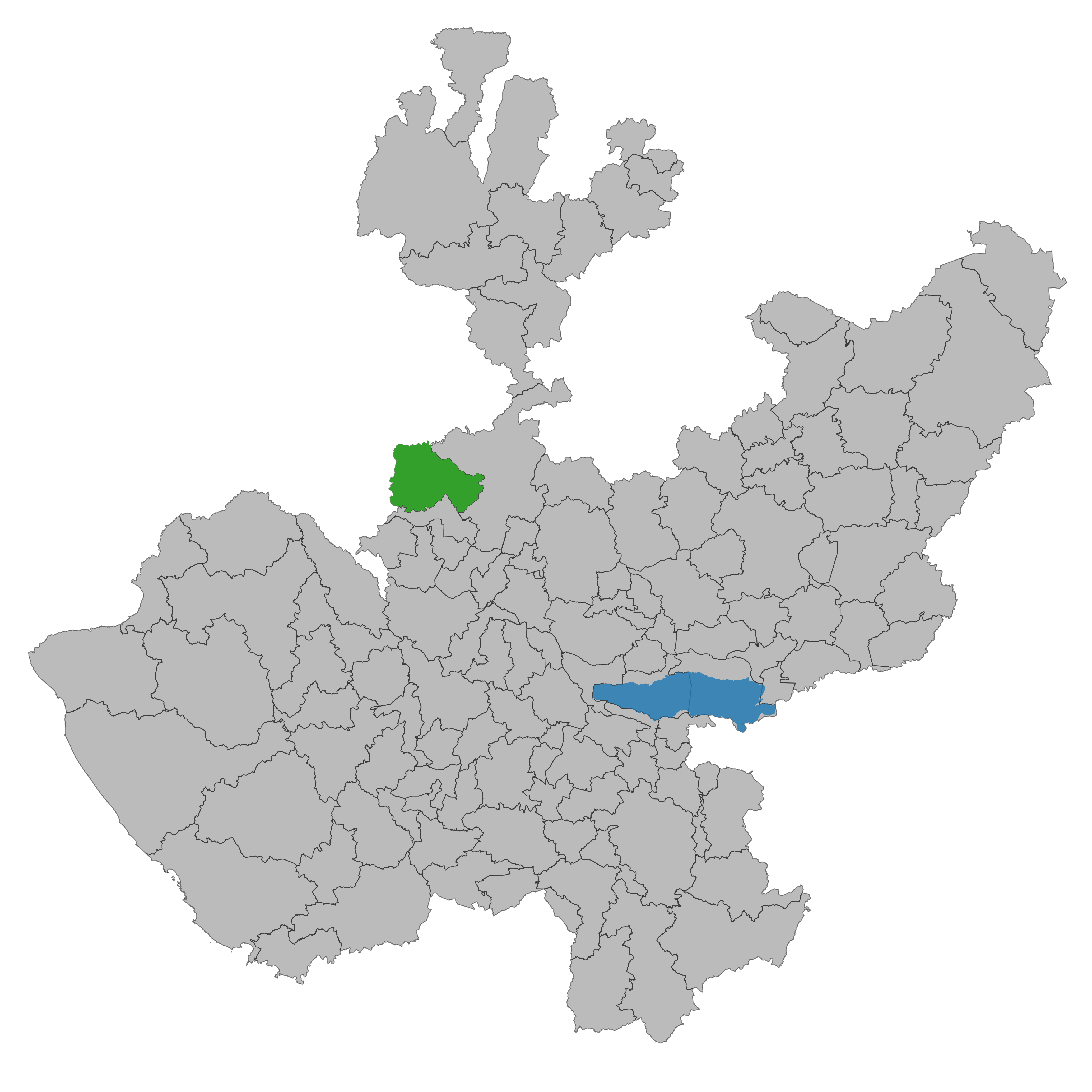 Municipality of Jalisco. Prepared with the software QGIS version 2.8.2 Wien & with information of SCINCE 2010 version 05/2013